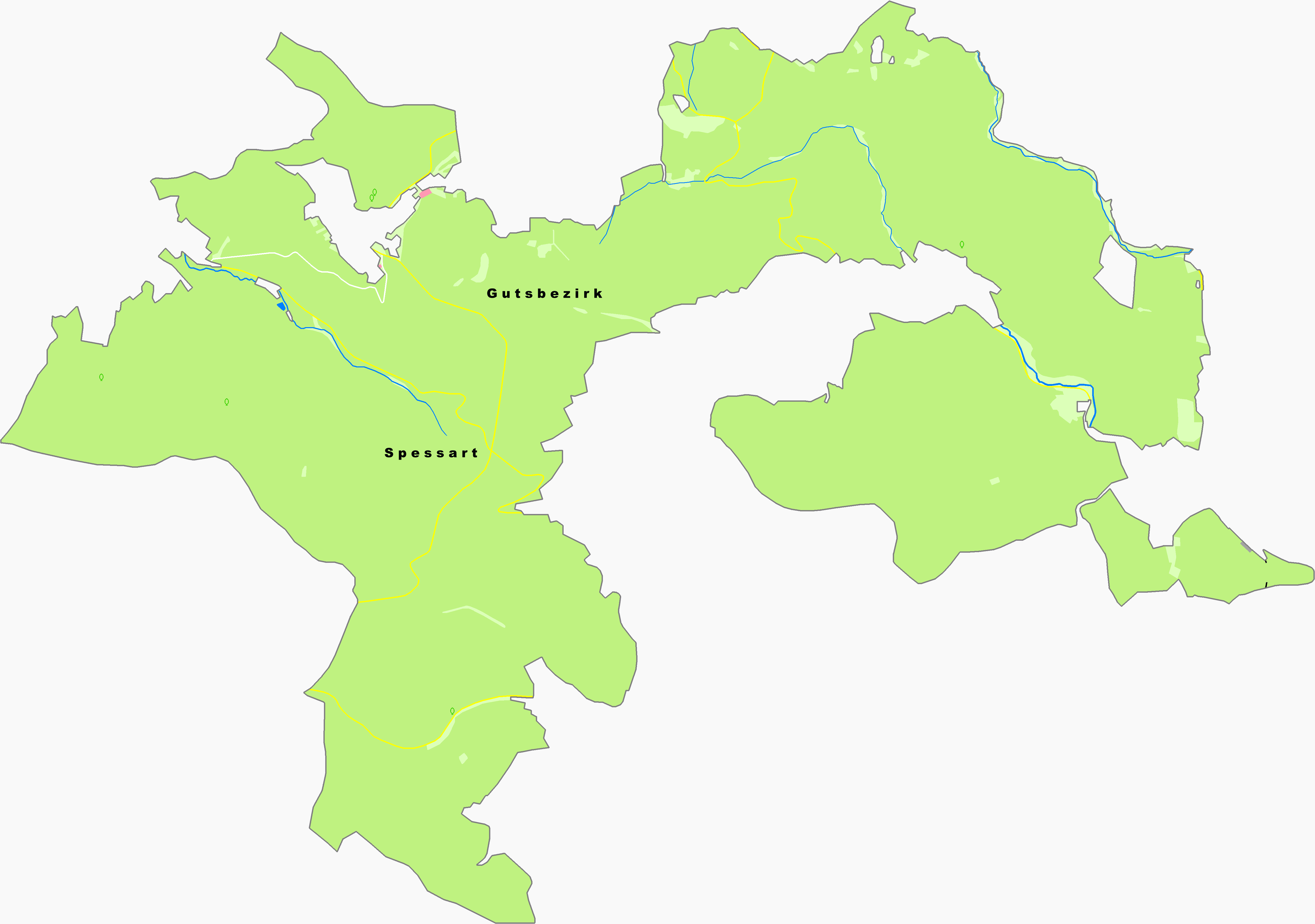 Unincorporated area Gutsbezirk Spessart Settlement area Industrial area Grassland, Meadow Body of water Forest Municipal border Main street Site street Railway Natural monument